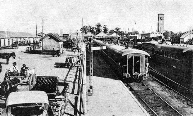 Aerial view of Rosario Central station of Central Argentine Railway.